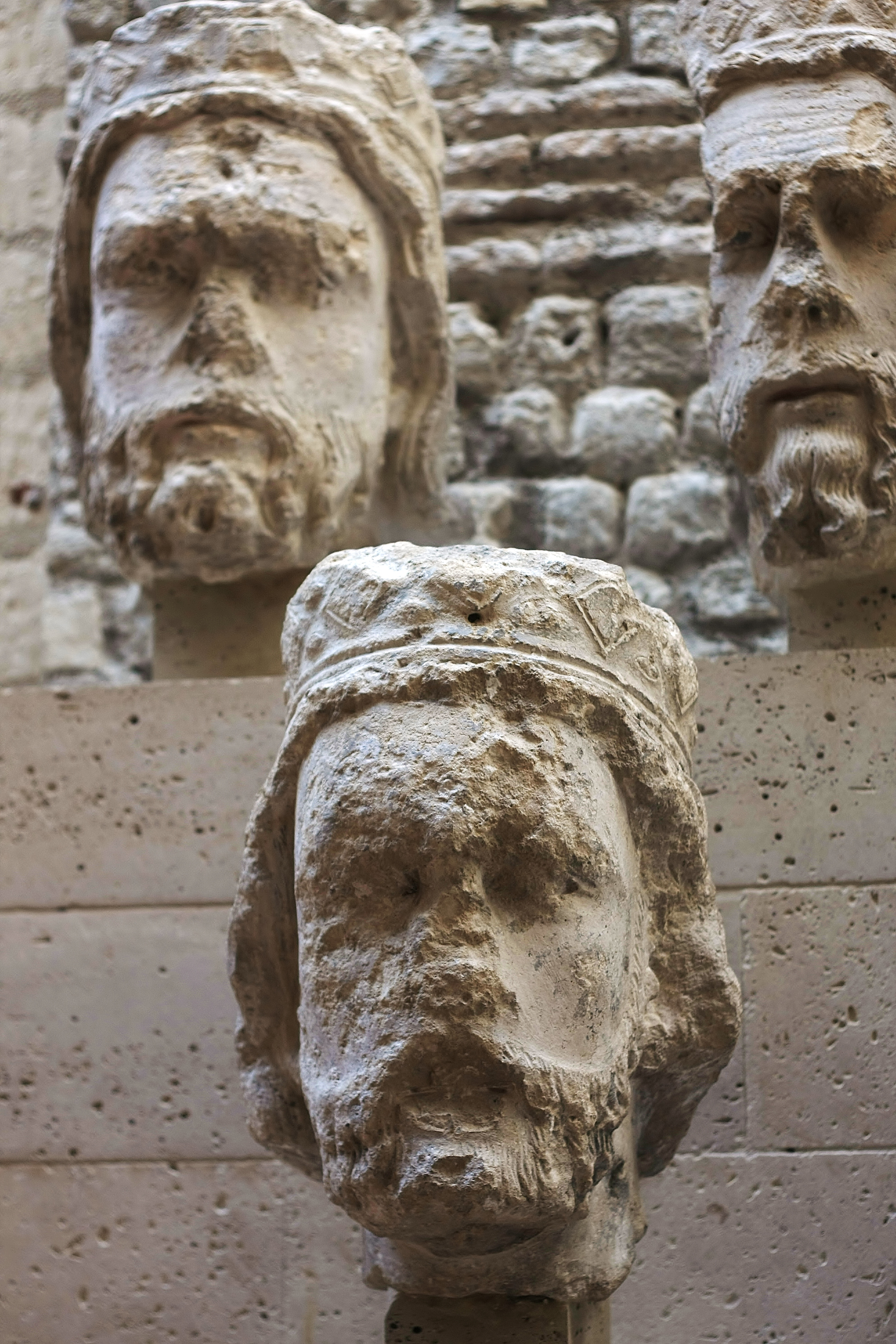 King sculptures from Notre-Dame de Paris in the Musée national du Moyen Âge